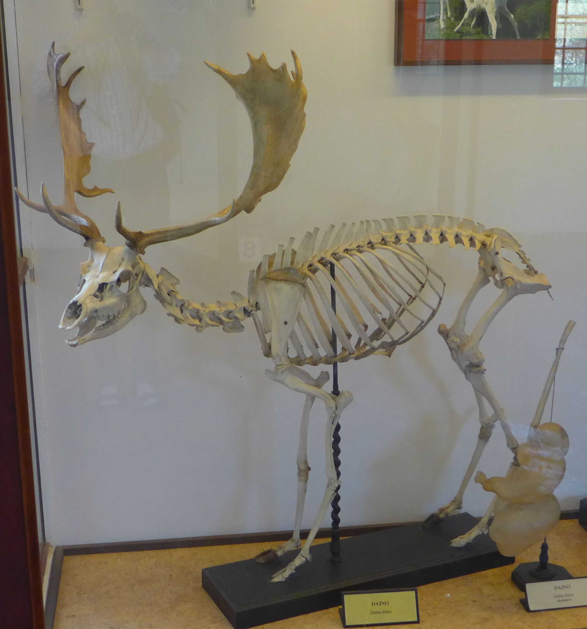 Certosa di Pisa Mammal Gallery